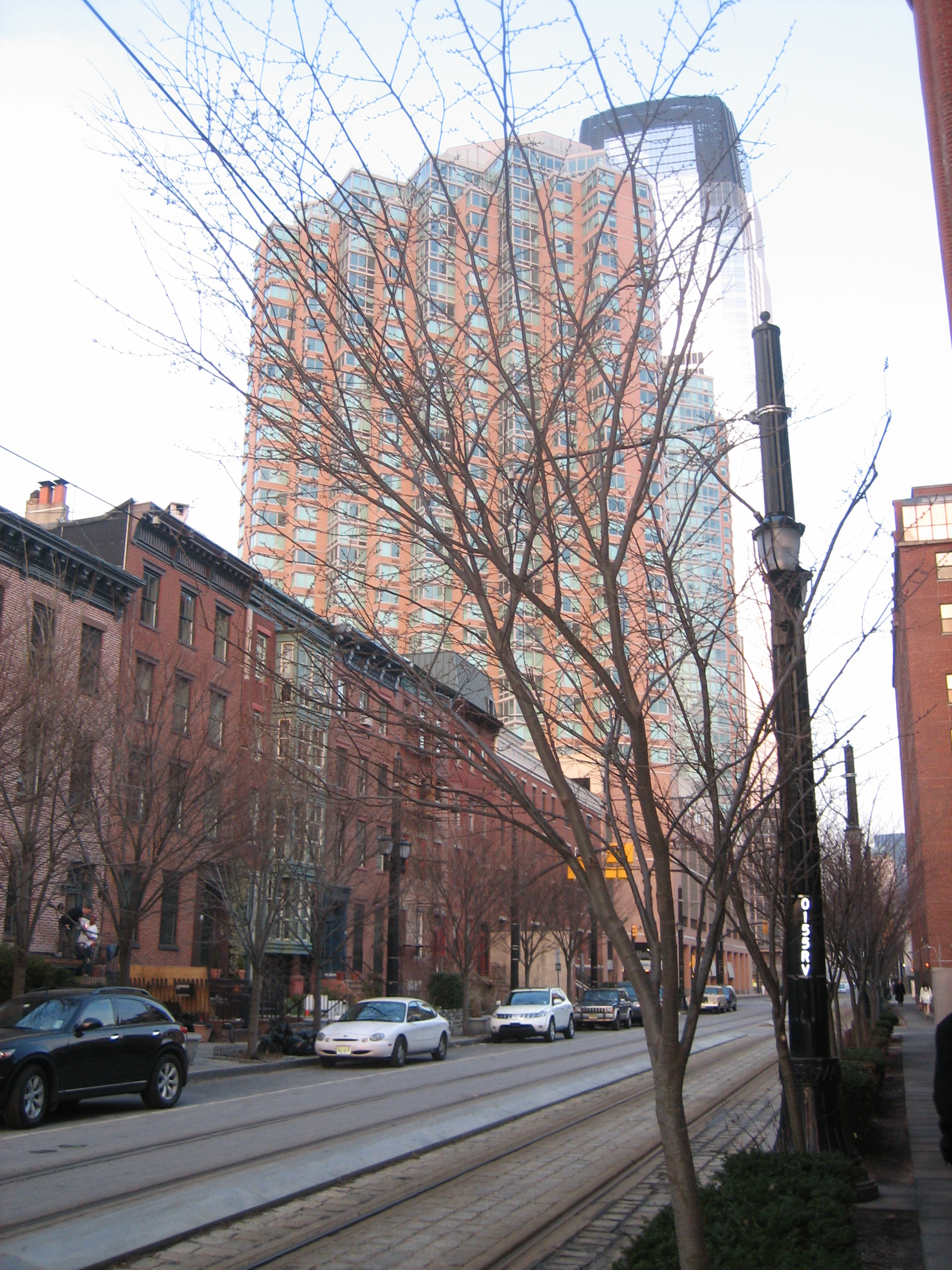 View of Essex St looking east toward the Goldman Sachs Building and NYC. HBLR tracks on the right side of the street.